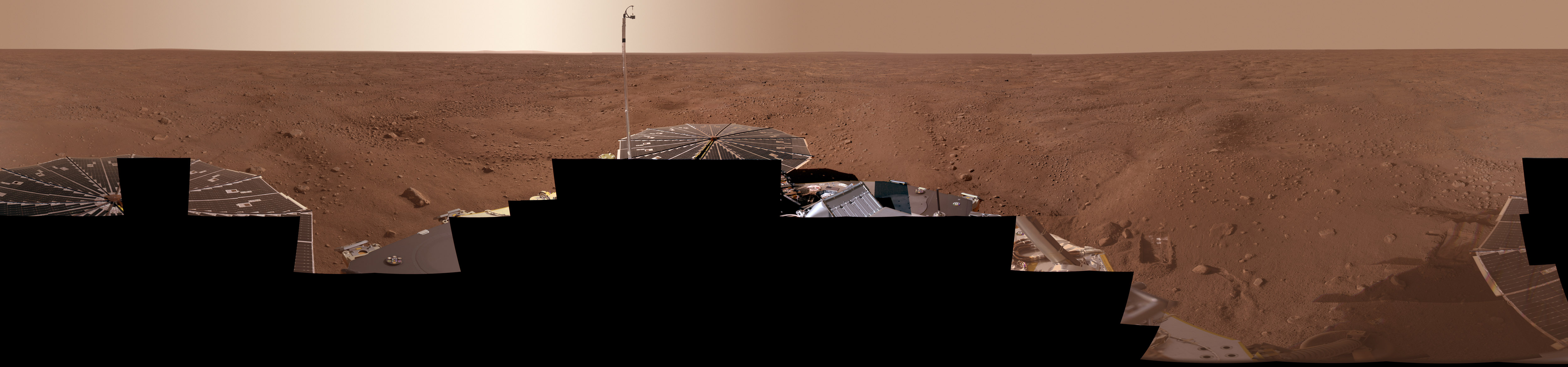 Full-Circle Color Panorama of Phoenix Landing Site on Northern Mars This view combines more than 400 images taken during the first several weeks after NASA's Phoenix Mars Lander arrived on an arctic plain at 68.22 degrees north latitude, 234.25 degrees east longitude on Mars. The full-circle panorama in approximately true color shows the polygonal patterning of ground at the landing area, similar to patterns in permafrost areas on Earth. The center of the image is the westward part of the scene. Trenches where Phoenix's robotic arm has been exposing subsurface material are visible in the right half of the image. The spacecraft's meteorology mast, topped by the telltale wind gauge, extends into the sky portion of the panorama. This view comprises more than 100 different camera pointings, with images taken through three different filters at each pointing. It is presented here as a cylindrical projection. The Phoenix Mission is led by the University of Arizona, Tucson, on behalf of NASA. Project management of the mission is by NASA's Jet Propulsion Laboratory, Pasadena, Calif. Spacecraft development is by Lockheed Martin Space Systems, Denver. The original NASA image has been modified by reducing the linear pixel density by 50%, and increasing compression.